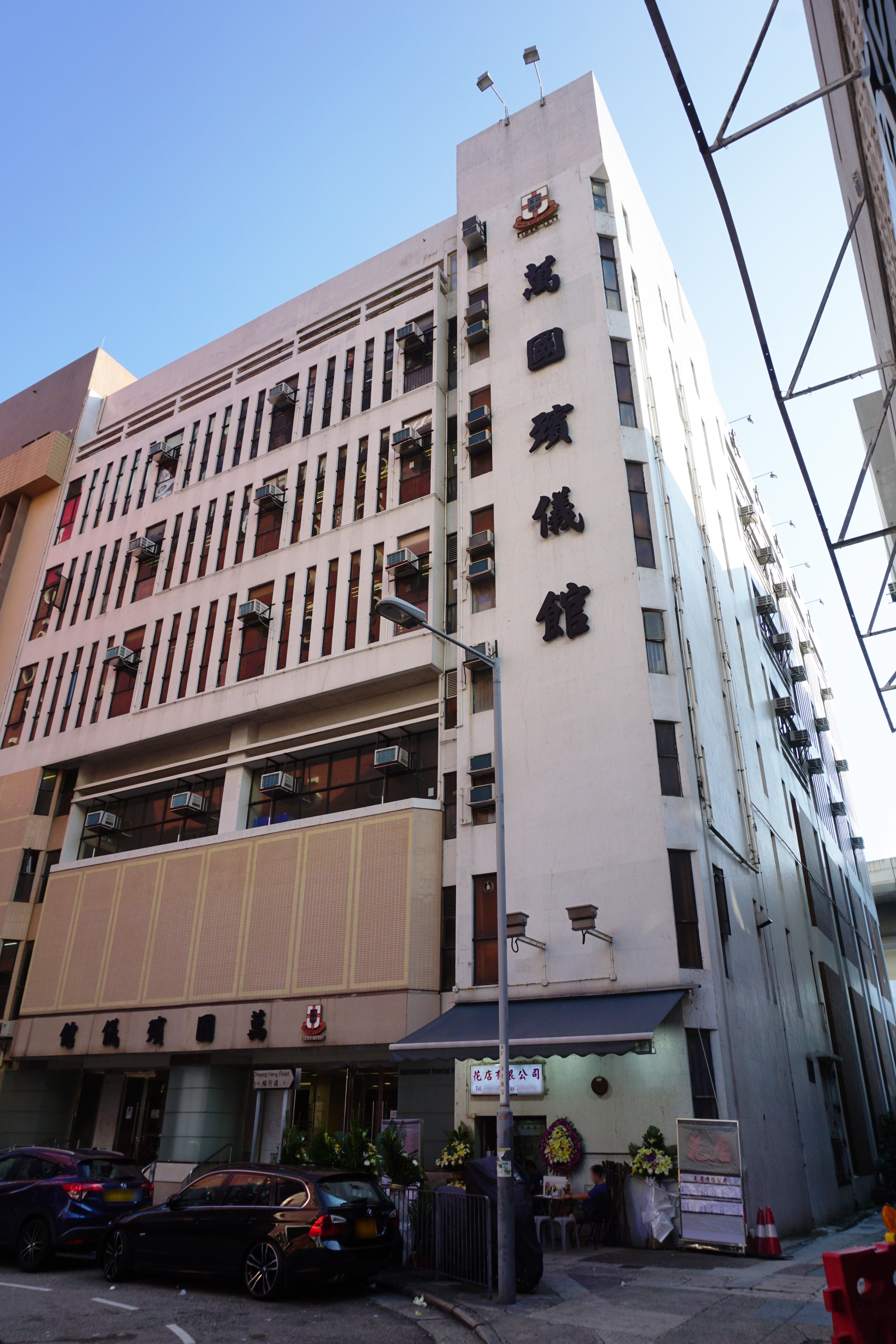 International Funeral Parlour in Hungh Hom, Hong Kong.